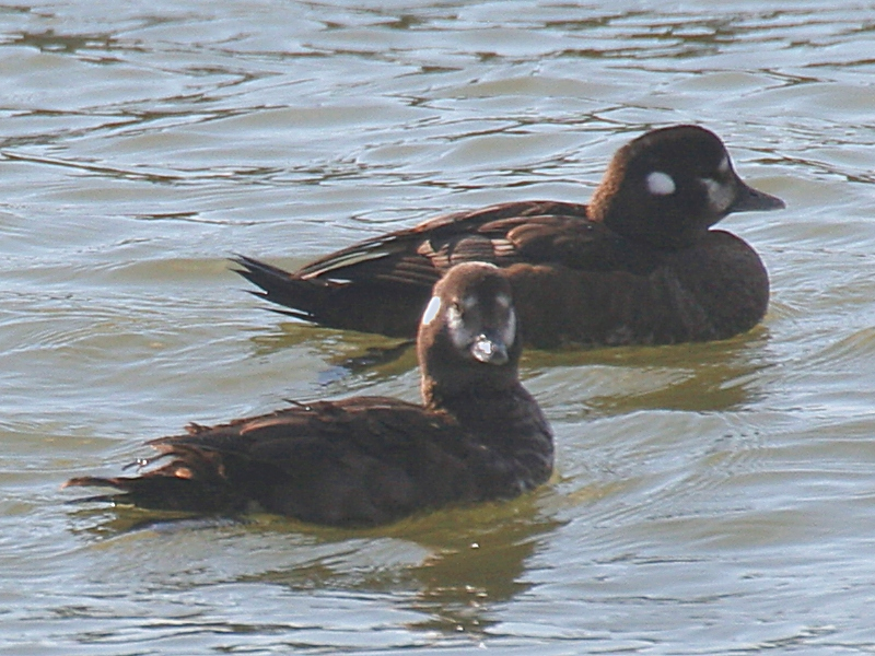 Harlequin Duck, Jan. 2007, Ibaraki JAPAN